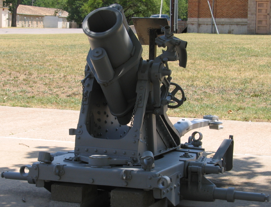 front view of a 17 cm mittlerer Minenwerfer 16 a/A (early short-barrel model) at Ft. Sill, OK